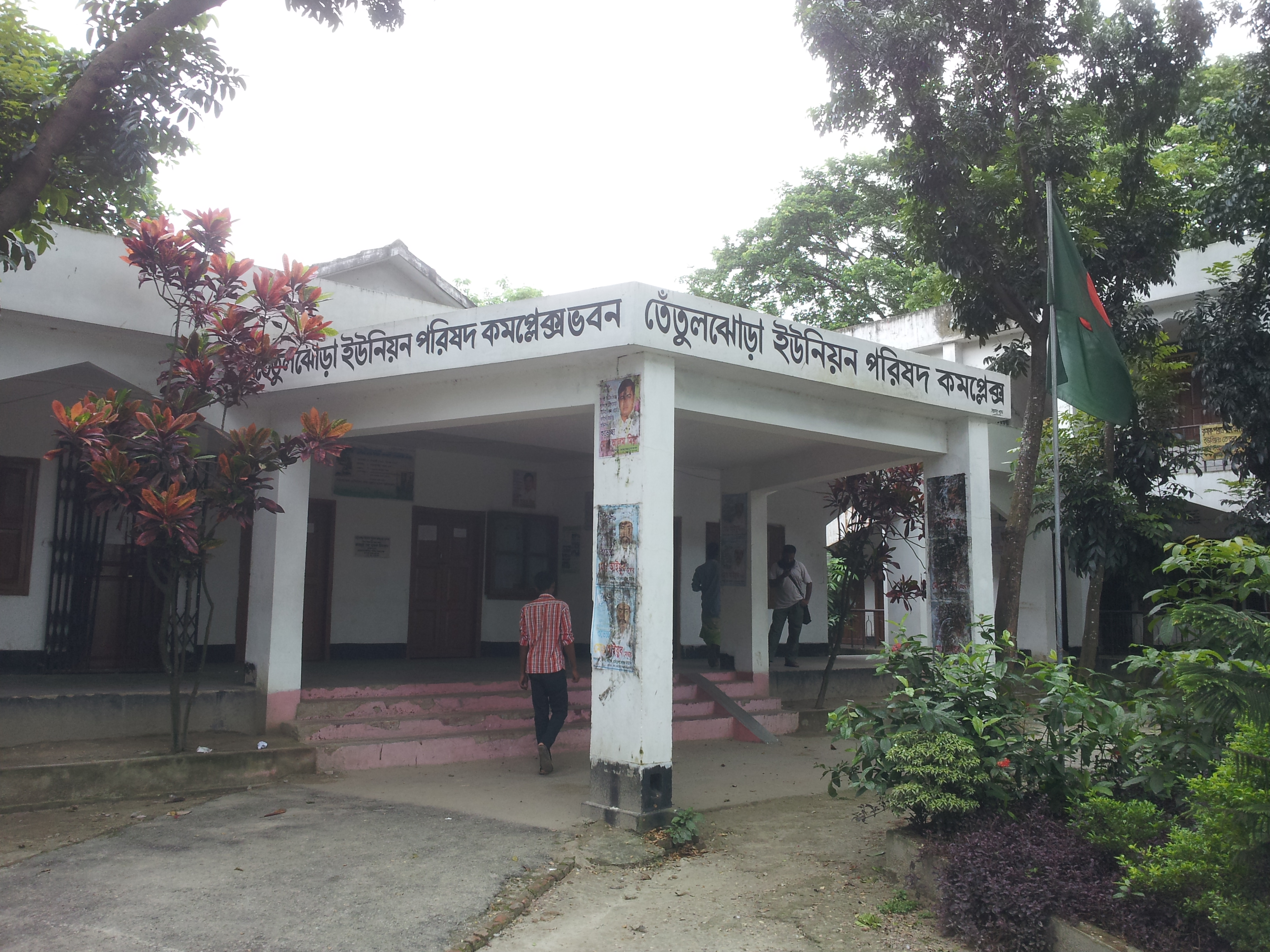 Tetuljhora Union Complex, Savar, Dhaka.